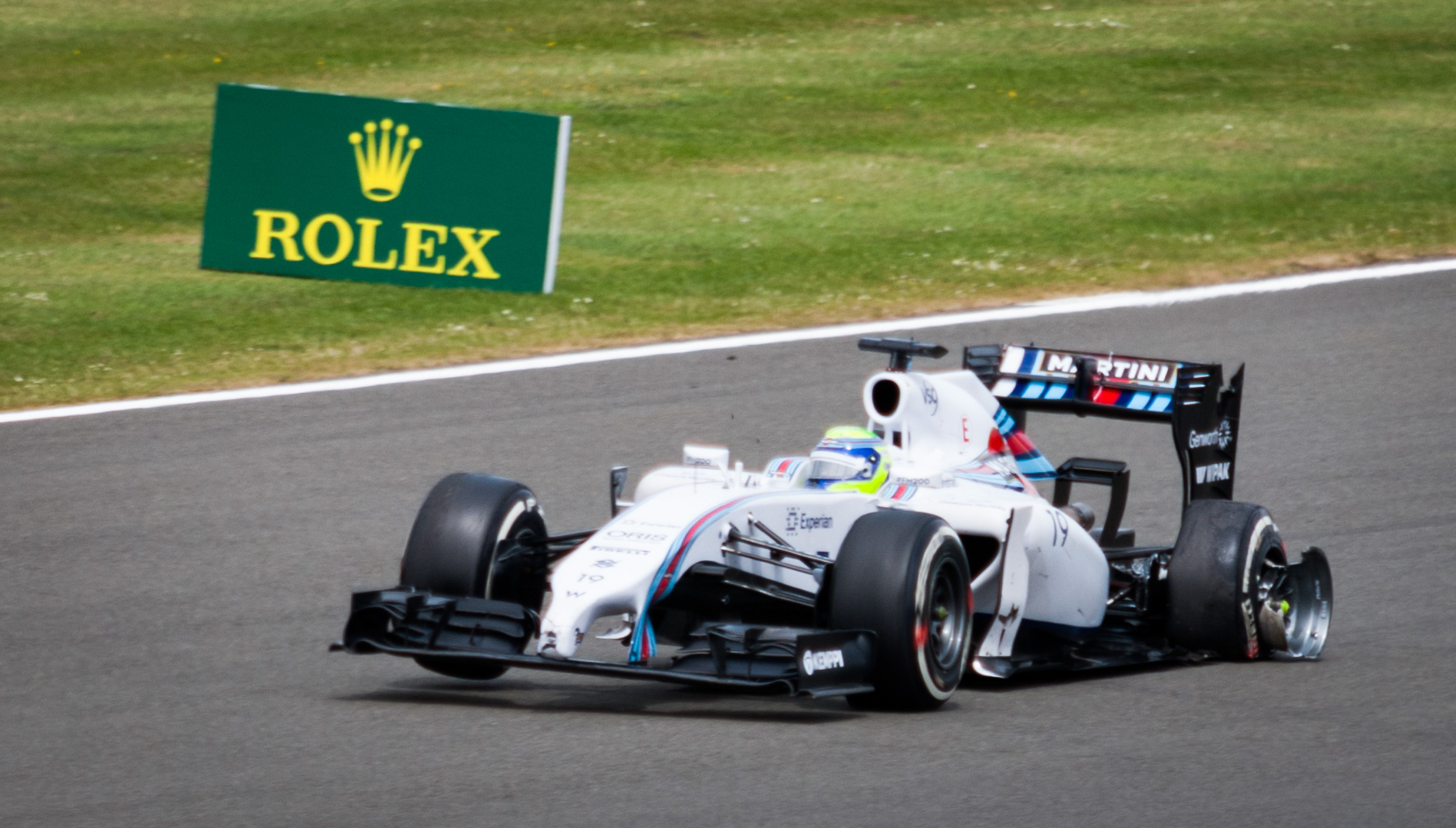 Felipe Massa on his way to the pit lane with a puncture. The puncture was the result of trying to avoid an accident caused by Kimi Räikkönen on the first lap of the 2014 British Grand Prix at Silverstone.